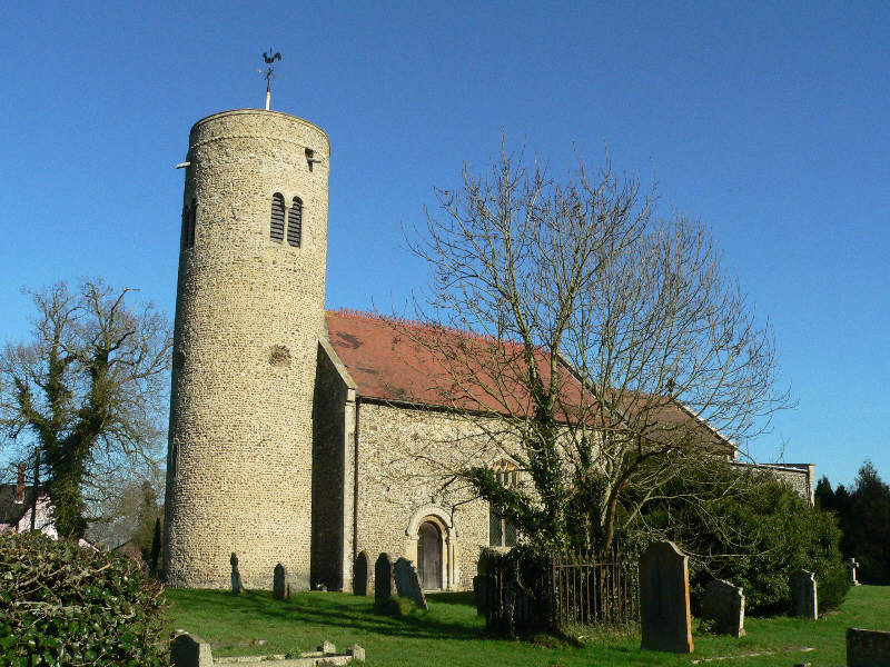 St Mary's parish church, Gissing, Norfolk, seen fromthe southwest